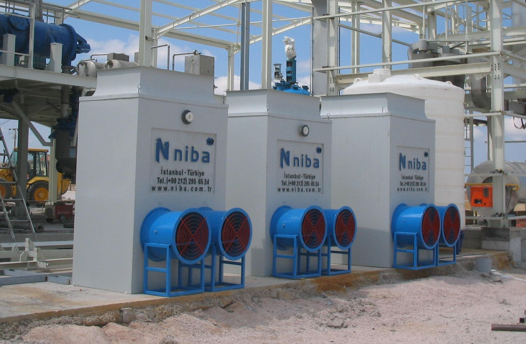 Package Type Forced Draft Counter Flow Cooling Towers